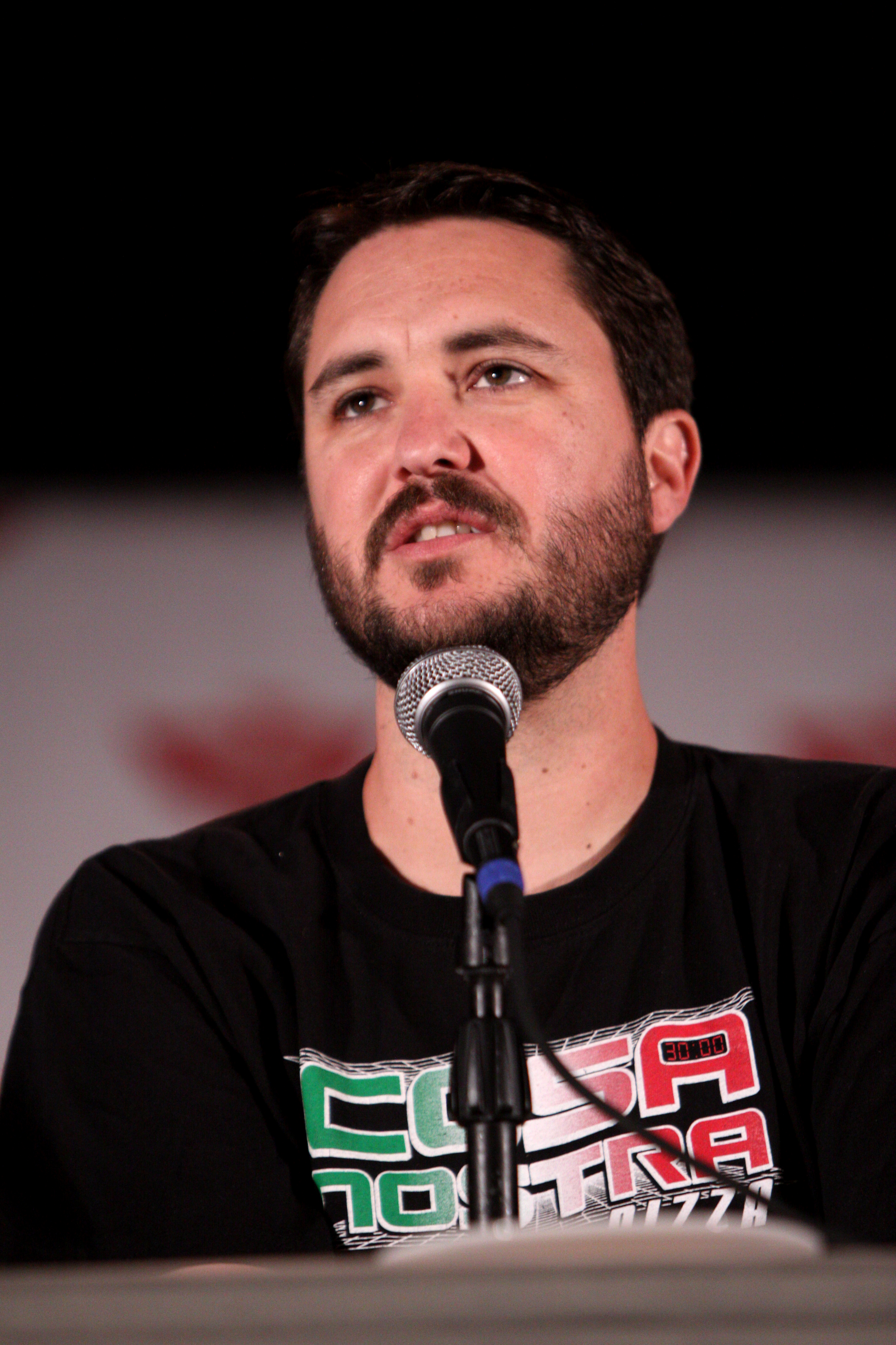 Wil Wheaton at the Phoenix Comicon, on the Eureka panel, in Phoenix, Arizona.